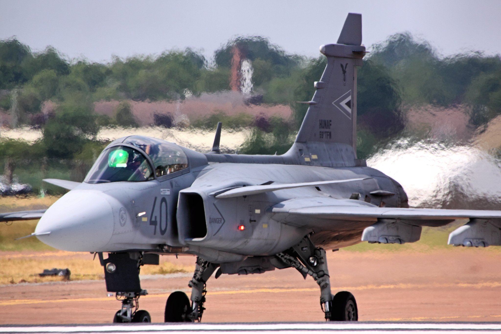 Gripen - RIAT 2013 - Explored :-)